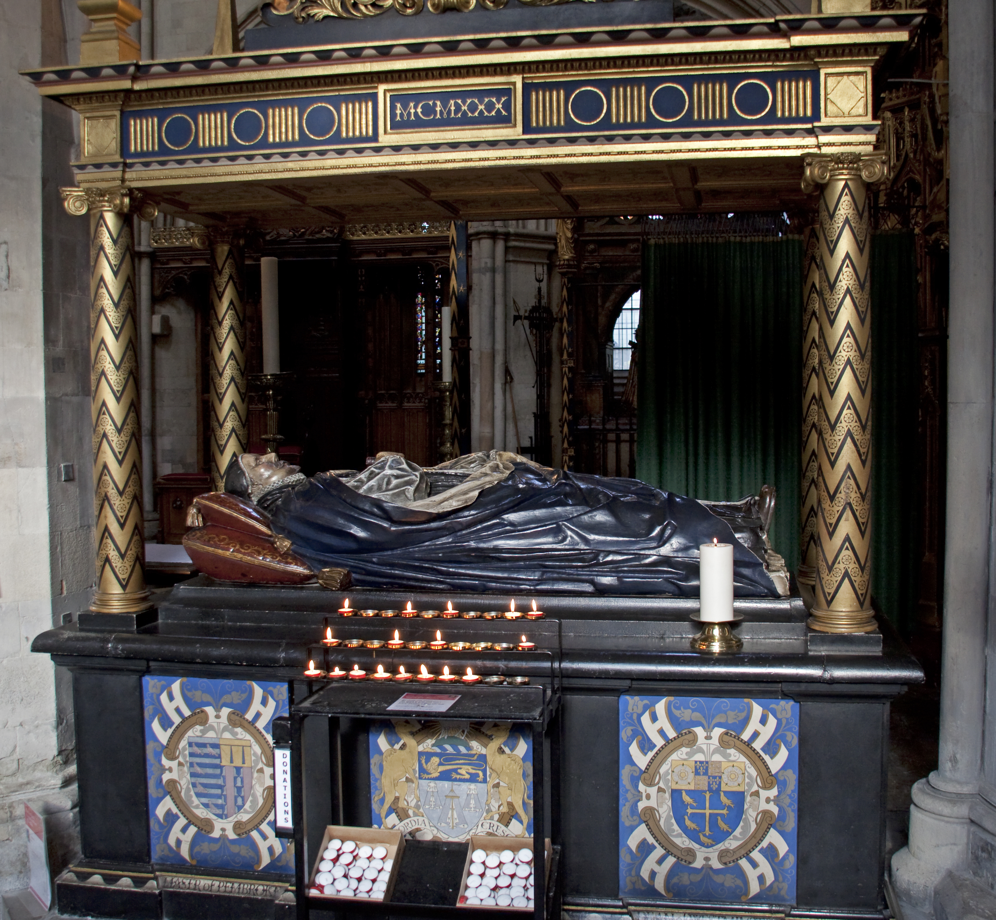 Southwark Cathedral monument to Lancelot Andrewes (1555 – 1626) (from "the only Bishop of Winchester to be buried in Southwark Cathedral although at the time of his death it would have been known as St Saviour’s, the local parish church. Born in 1555, he was baptised at All Hallows–by-the–Tower in which parish he was probably born. He was educated at Merchant Taylors’ School and then went onto Pembroke College, Cambridge. He became Master of Pembroke and subsequently Bishop of Chichester, Bishop of Ely and then Bishop of Winchester in 1619. He was also a Prelate to the Order of the Garter and the last episcopal resident of Winchester House which was conveniently situated for his Privy Council duties. Described as a brilliant scholar and linguist and also an able administrator, Andrewes was commissioned to be part of the team that provided the translation for the Authorised Version of the Bible also known as the King James Bible. He is personally credited for his translation of the Pentateuch – the first five books of the Bible in the Old Testament (Genesis, Exodus, Leviticus, Numbers and Deuteronomy). His tomb can be found to the right of the Great Screen". Heraldry: centre, arms of the Worshipful Company of Merchant Taylors. This sign has apparently been stolen from Southwark Cathedral, as it appears on File:Concordia.JPG (13 July 2006) as "Pub sign for sale in Greenwich market, London"